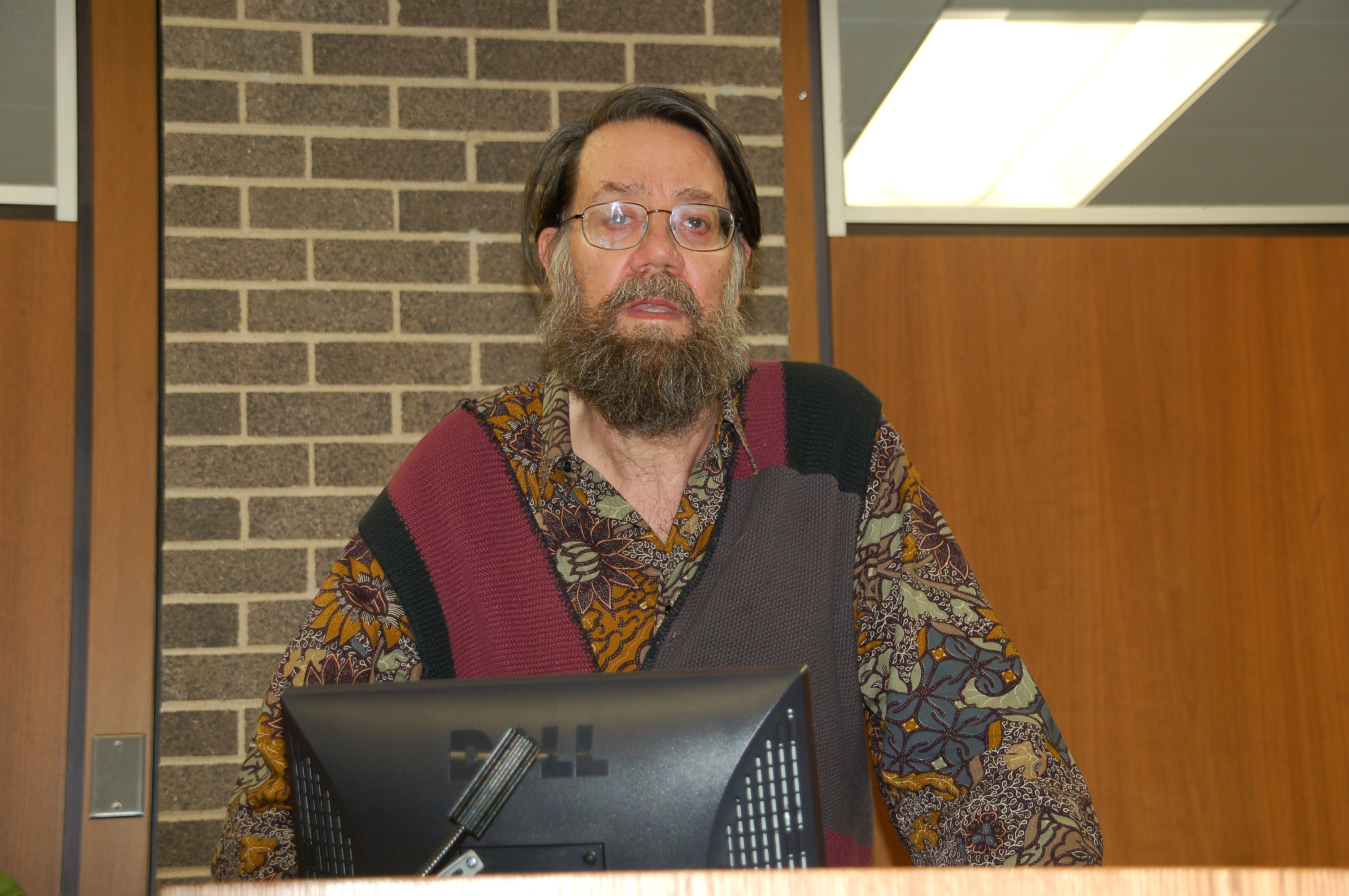 Author, activist and surrealist Franklin Rosemont speaking at a Movement for a Democratic Society (MDS) conference in Chicago in 2007.